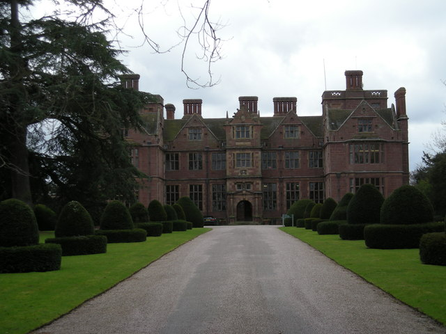 Condover Hall., near to Condover, Shropshire, Great Britain.